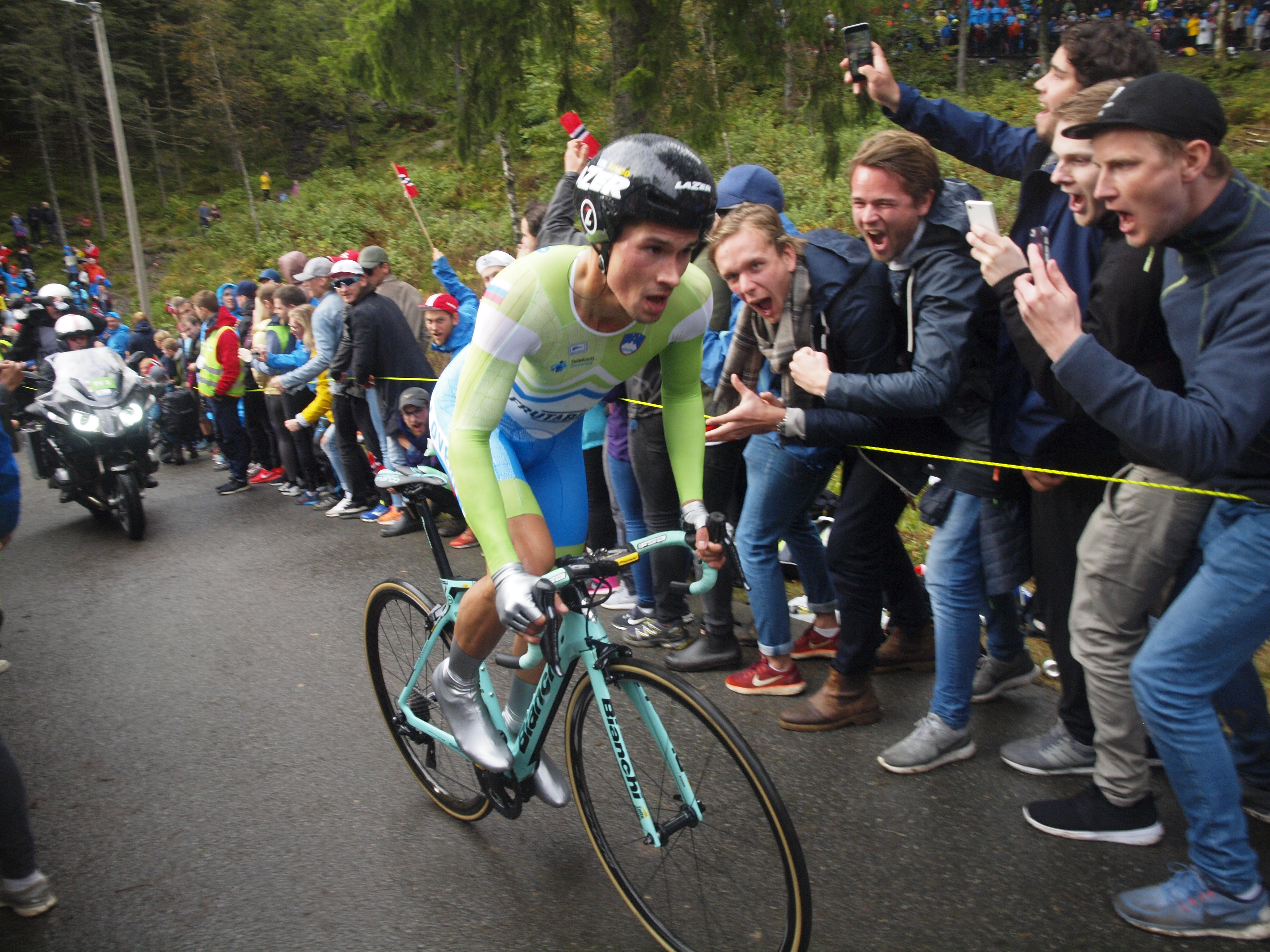 Primož Roglič at the 2017 UCI World Championships